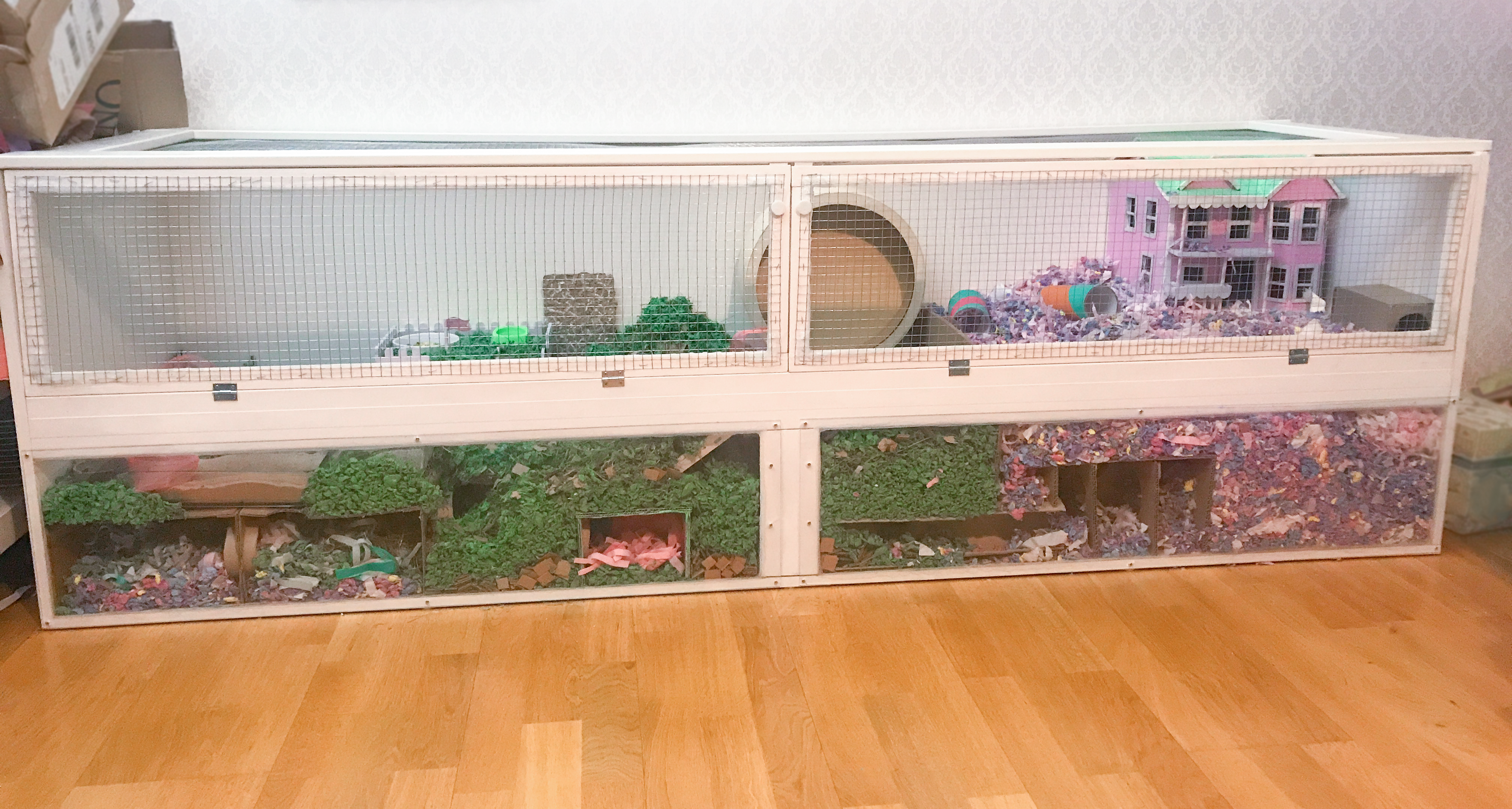 This cage was built to keep a Syrian hamster in, most of the bedding used is carefresh. The wheel is a 33cm wide wooden wheel. Built 2020-01-15. We decided to build this cage because our hamster was getting stressed in his 775 sq in cage. Hamsters need a lot of space and he has been very happy since he got the upgrade! The pink house was also made by me, its mostly made out of cardboard and paper.